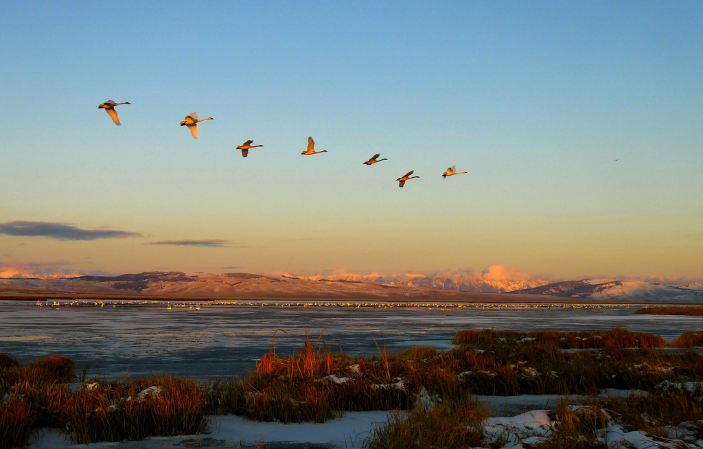 Red Rock Lakes National Wildlife Refuge, MT Photo: Erin Clark, USFWS